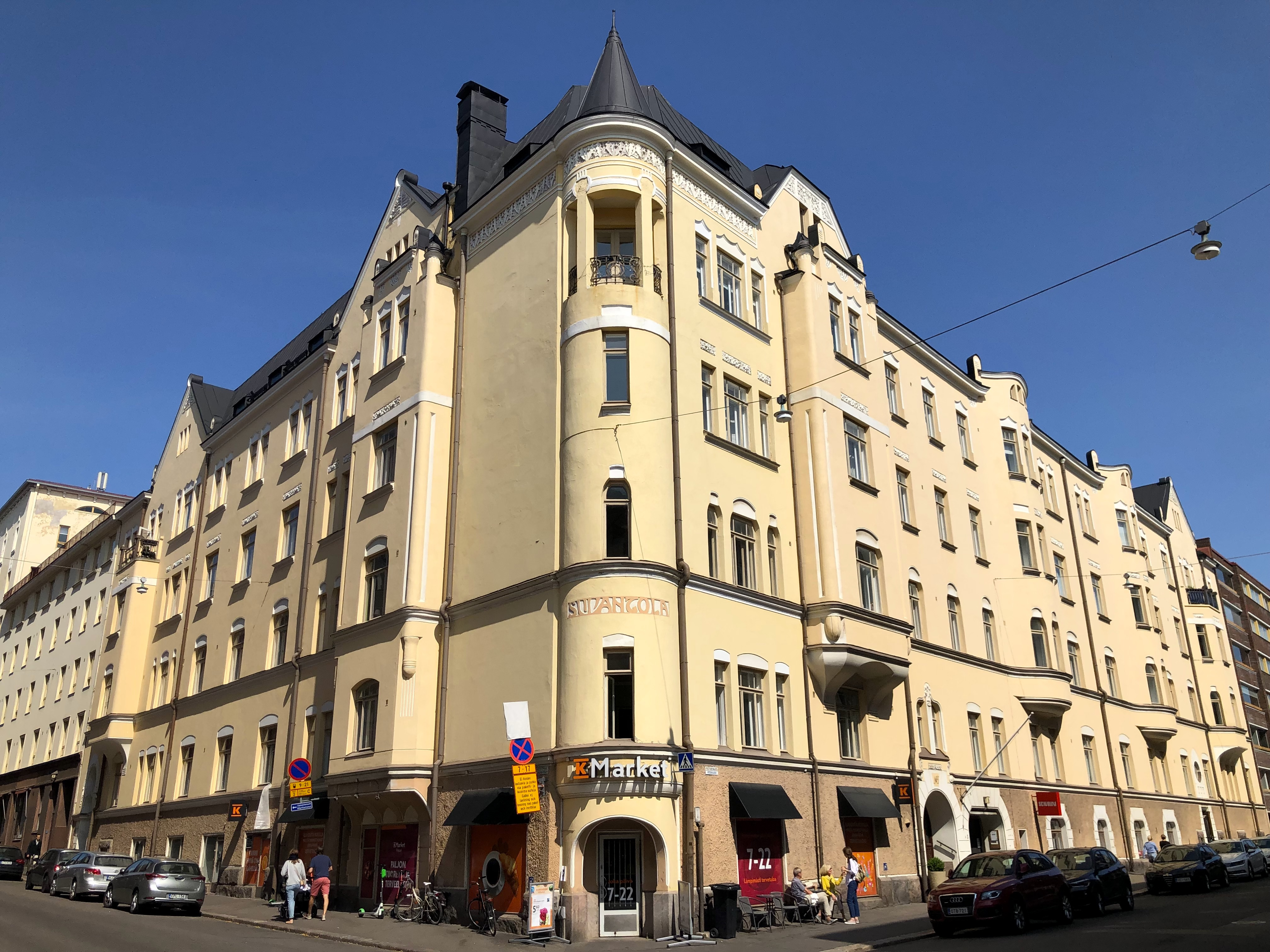 Neitsytpolku and Pietarinkatu in Ullanlinna Helsinki Finland July 2019.